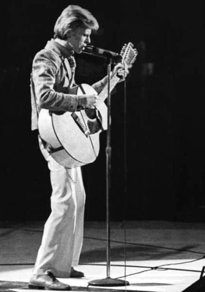 The Young Americans tour at the Washington DC Capital Centre on 11 November 1974.